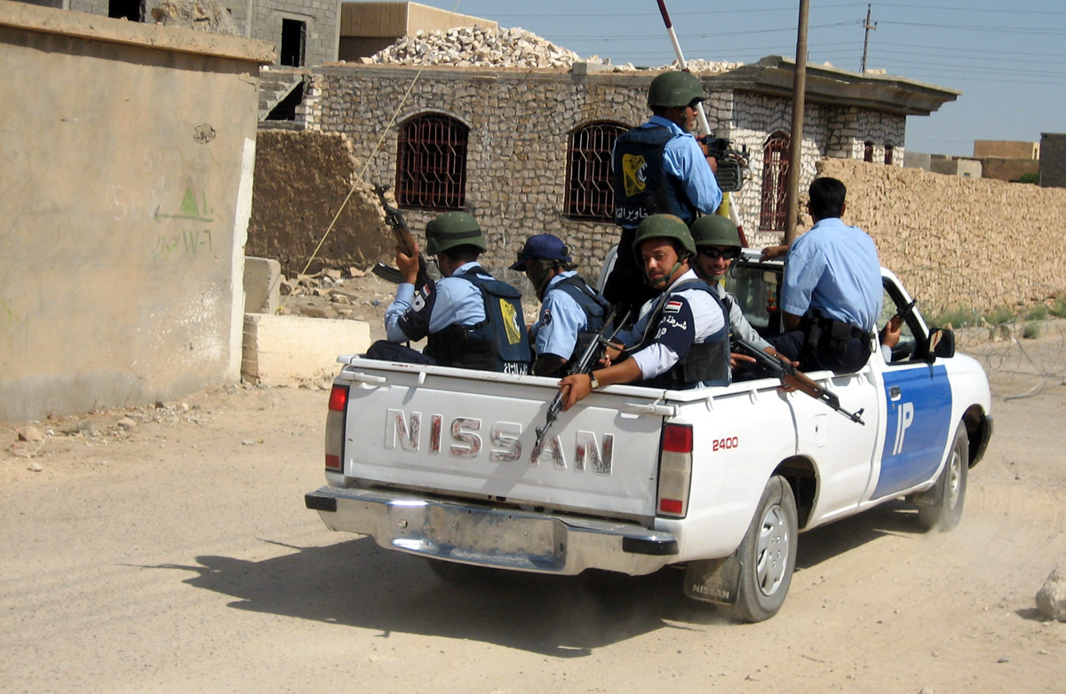 Iraqi police, piled into a pick-up truck, provide security in Karabilah, Iraq a city of about 30,000, where Marines from 1st Battalion, 7th Marine Regiment unveiled a brand-new grade school July 7, 2006. About one week before its opening, insurgents planted an improvised explosive device inside the school which would have leveled a good portion of the building, destroying nearly three months of work by Marines and locals, said Gunnery Sgt. Joseph S. Mallicoat, the team leader for the civil affairs team here. Since arriving here four months ago, the Marines say they have seen a decrease in enemy activity after conducting daily security patrols in 100-degree weather alongside Iraqi soldiers. The city also has a new police force, which conducts security operations alongside the Twenty-nine Palms, Calif.-based Marines.